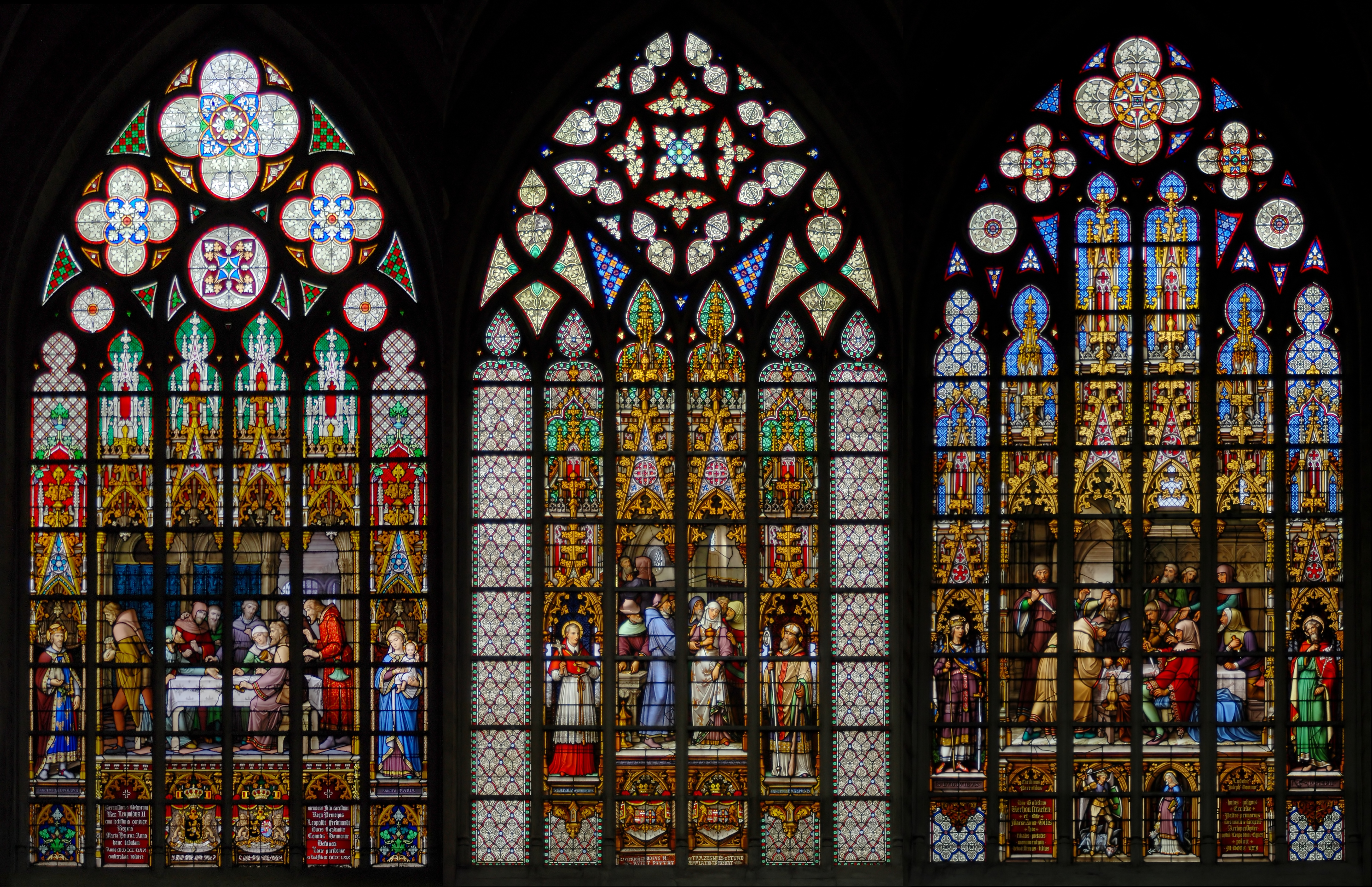 Three scenes of the legend of the Miraculous Sacrement. Stained glass windows in the Cathédrale of Saints-Michel-et-Gudule, Brussels, by Jean-Baptiste Capronnier. In 1370, according to the legend, holy communion wafers began to bleed after being stabbed with daggers by the Jews of Brabant at the synagogue in Brussels.